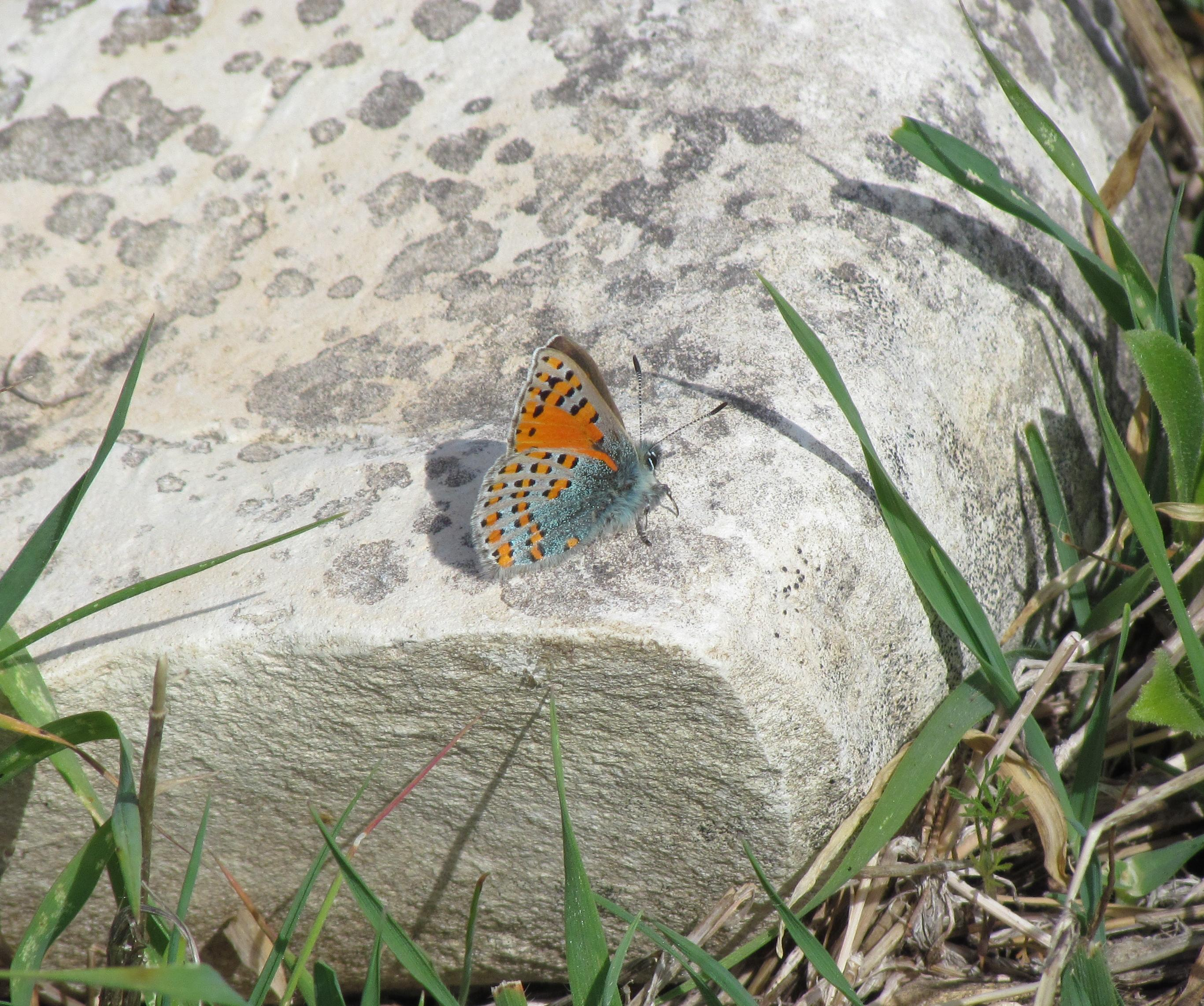 כחליל הקדד(Tomares nesimachus) זכר ברמות מנשה ליד דליה ב21 בפברואר 2014